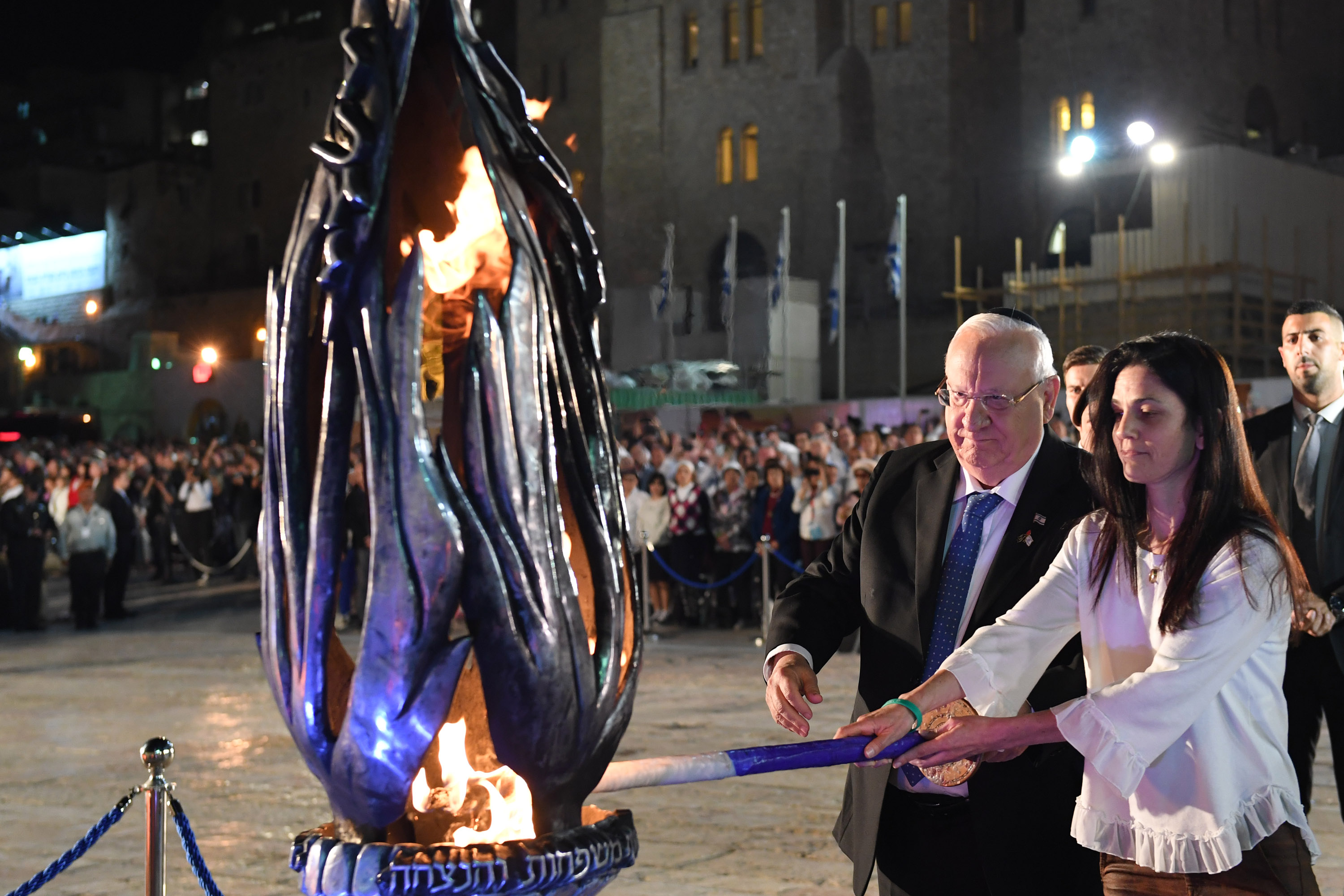 נשיא מדינת ישראל ראובן ריבלין באירועי פתיחת יום הזיכרון ברחבת הכותל המערבי מדליק את נר הזיכרון. בצילום עם גלית זוהר אלמנתו של רס"ן דודי דוד זוהר